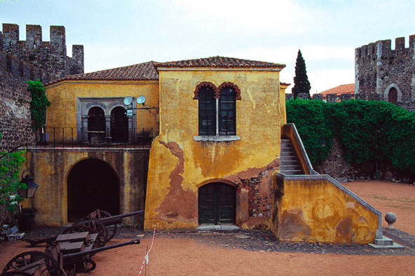 A building in side Beja Castle used as the administration centre. The castle is located in the city of Baja, Alentejo, Portugal